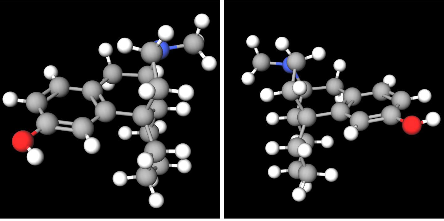 Levorphanol and its stereoisomer Dextrorphan; the Dextro isomer being a matabolite of Dextromethorphan.